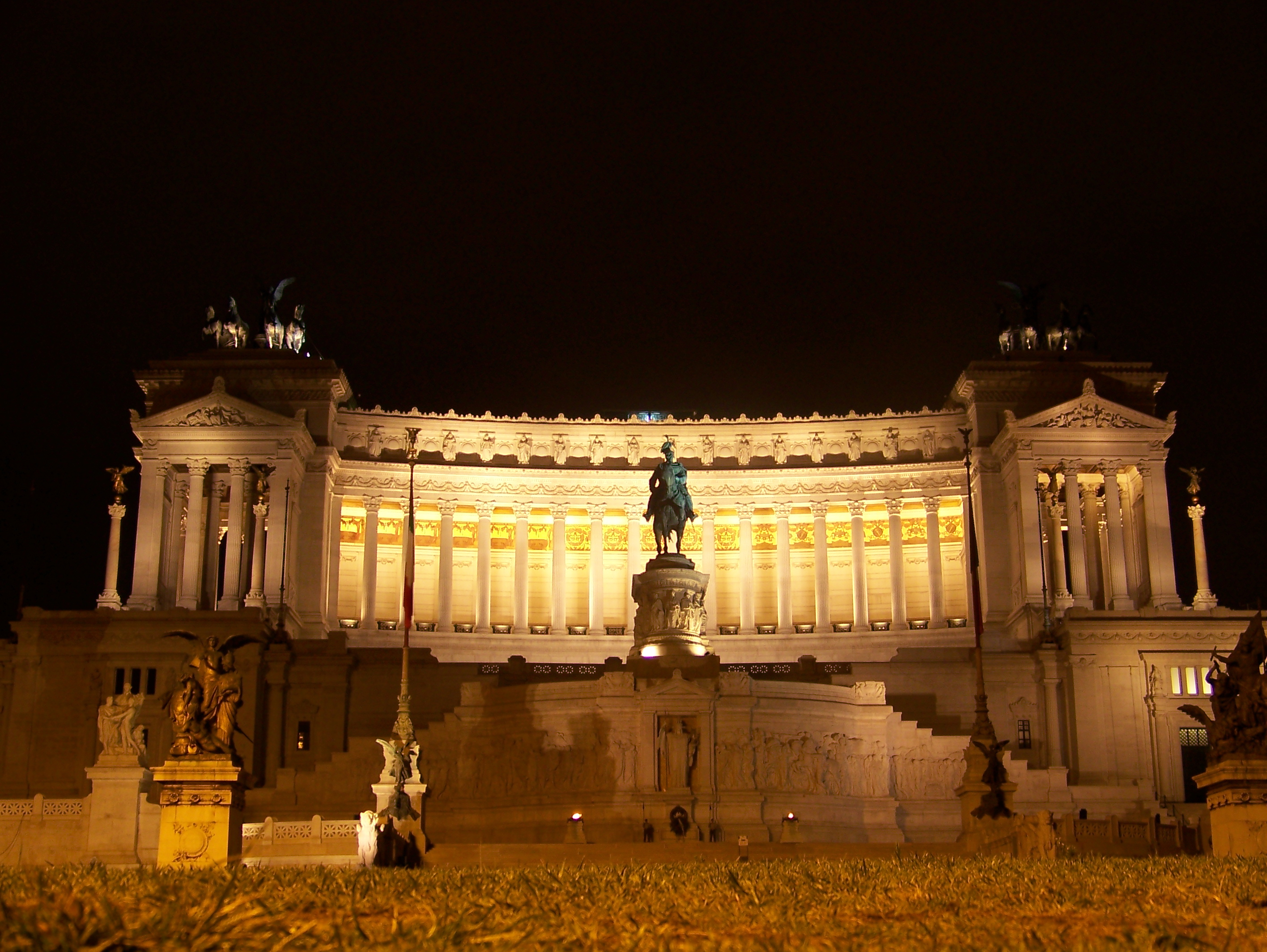 Vittoriano of Rome, Italy